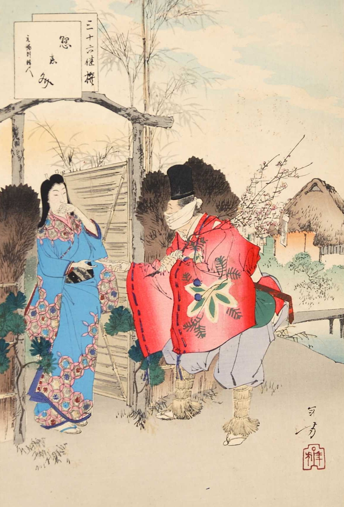 New Year Charm in the Shape of a Love Letter: Women of the Genroku Era[1688-1704], from the series Thirty-six Elegant Selections, woodblock print